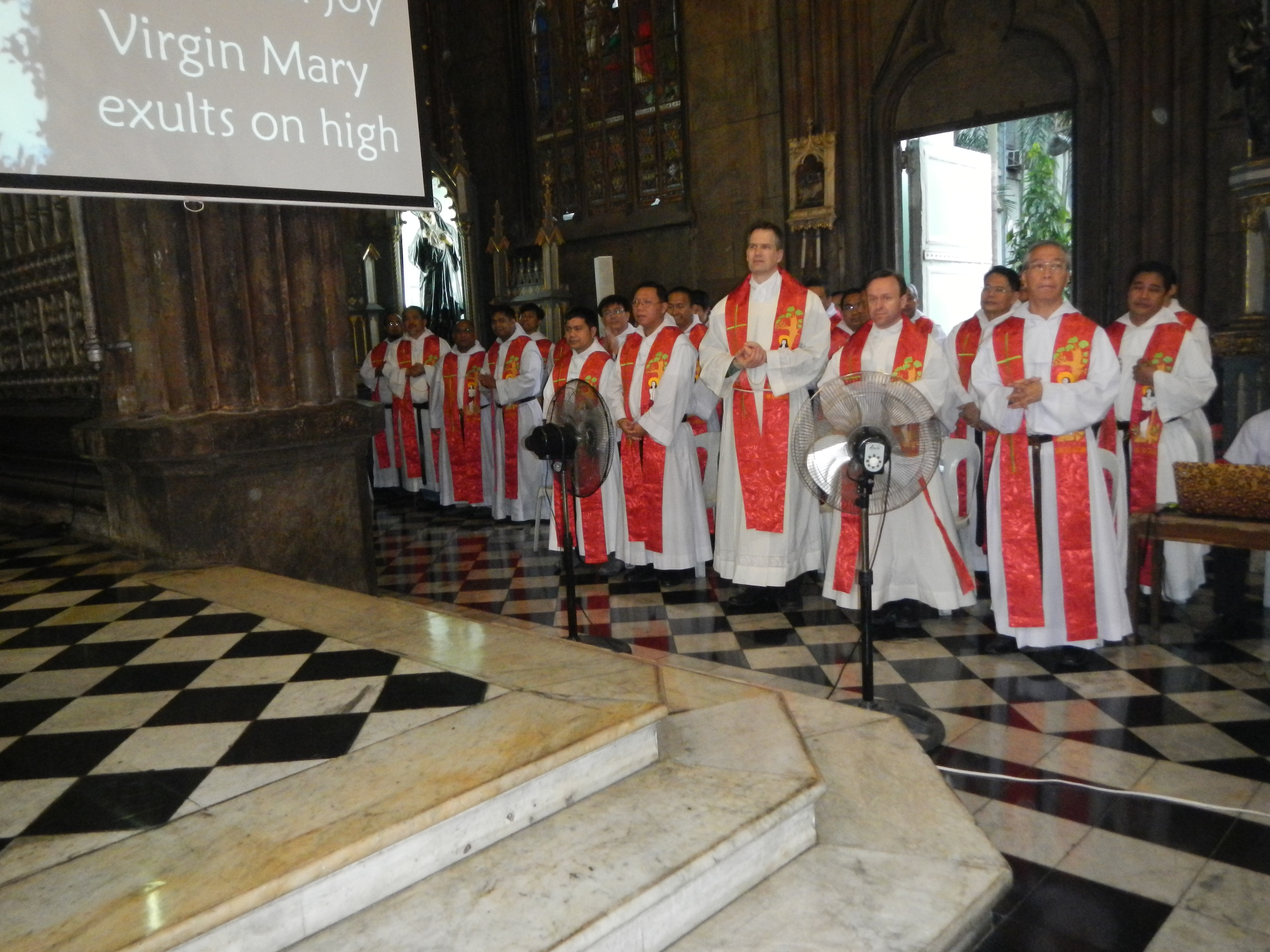 Upload Wizard photos of - Basilica of San Sebastian, Manila[1]The Basilica Minore de San Sebastián, better known as San Sebastián Church, is a Roman Catholic minor basilica in Manila, the Philippines. It is the seat of the Parish of San Sebastian and the National Shrine of Our Lady of Mt. Carmel.[2] - I retake or re-photograph this Great Church, the only steel church in the Philippines, since all the lights are out being the Feast Day, January 20, 2014 of St. Sebastian, and the 73rd Grand Anniversary of St. Sebastian College, with Grand Procession and the Holy Mass is celebrated by Bishop Teodoro Buhain, DD [3] [4] Auxiliary Bishop of Manila Arzobispado de Manila, Arzobispo St., Intramuros